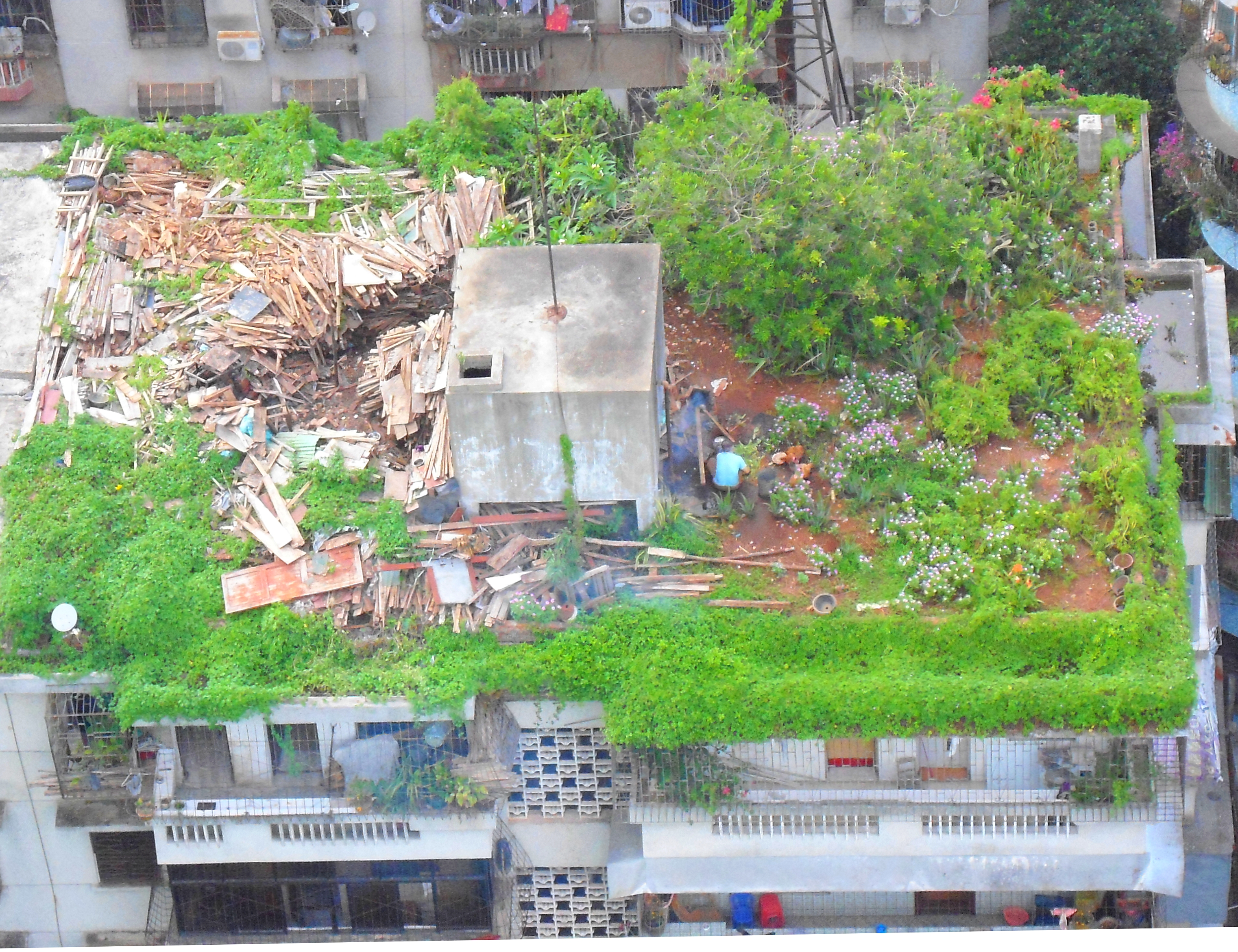 Roof top in Haikou City, Hainan Province, China. A man on the roof tends a fire. Chickens walk about. Firewood is stored. Plants grow.